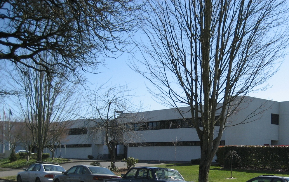 Tokyo International University campus at Willamette University, Oregon, USA.